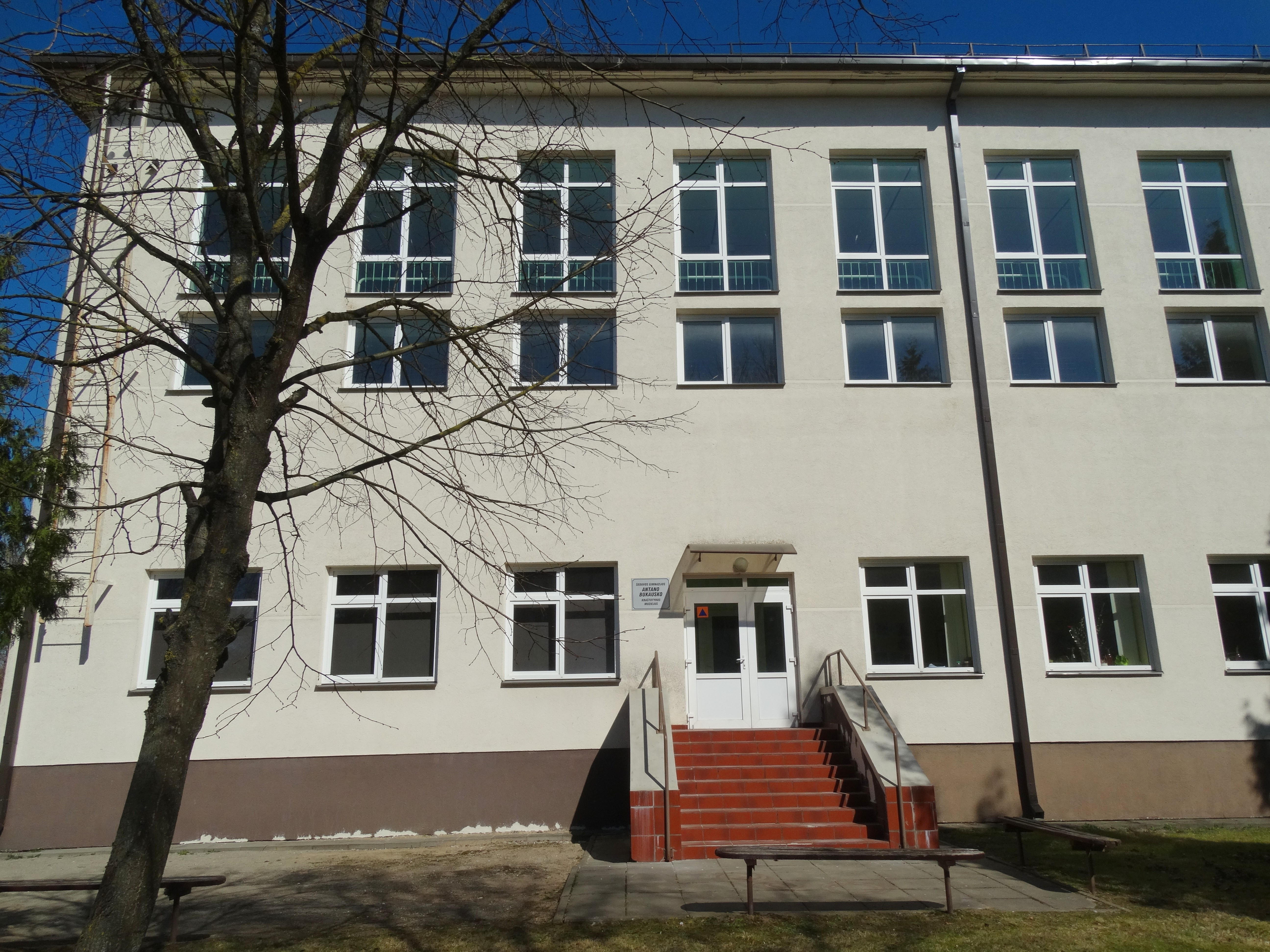 Šeduva Gymnasium, Lithuania